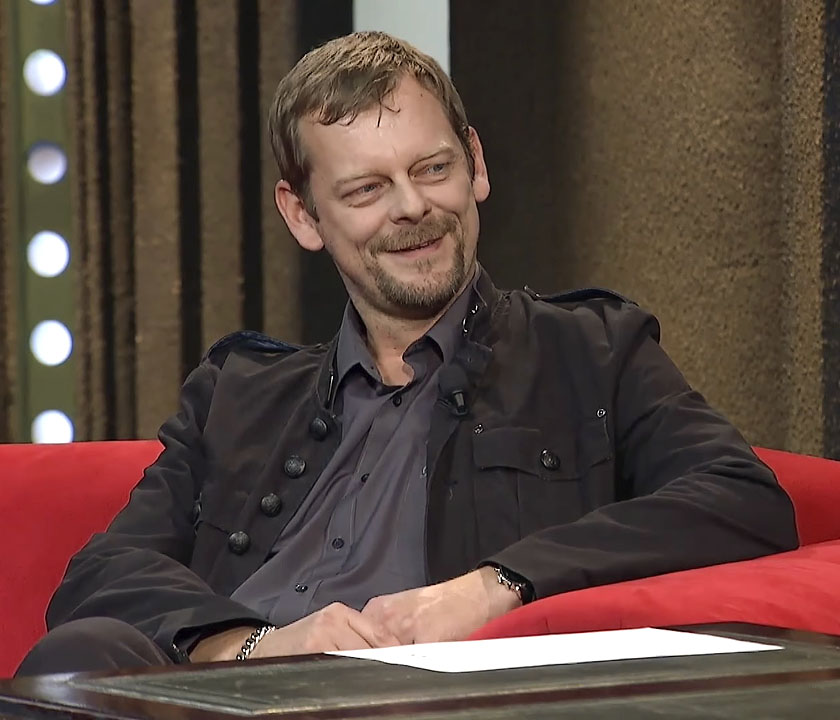 Czech actor Martin Stránský